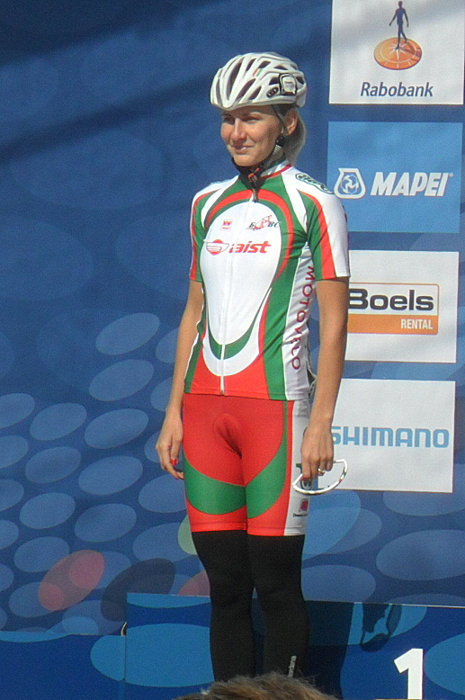 Alena Amialiusik (Belarus) before start of World Championships 2012 in Valkenburg, Netherlands